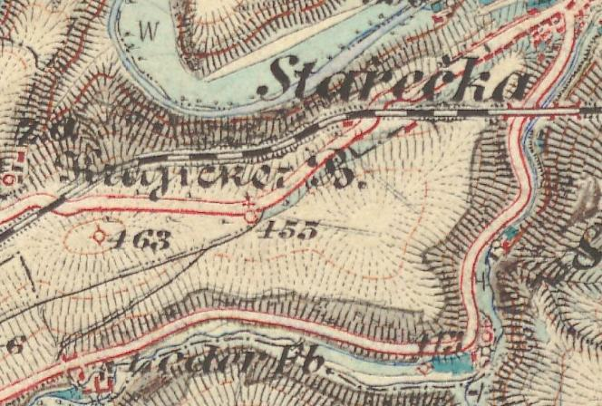 The map of the second part of Třebíč Borovina in year 1877